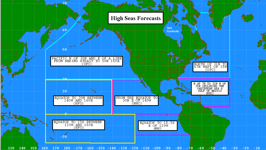 This image shows the National Weather Service areas of marine responsibility